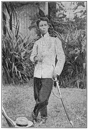 Photograph of General Gregorio del Pilar from A History of the Philippines (1905), by David P. Barrows